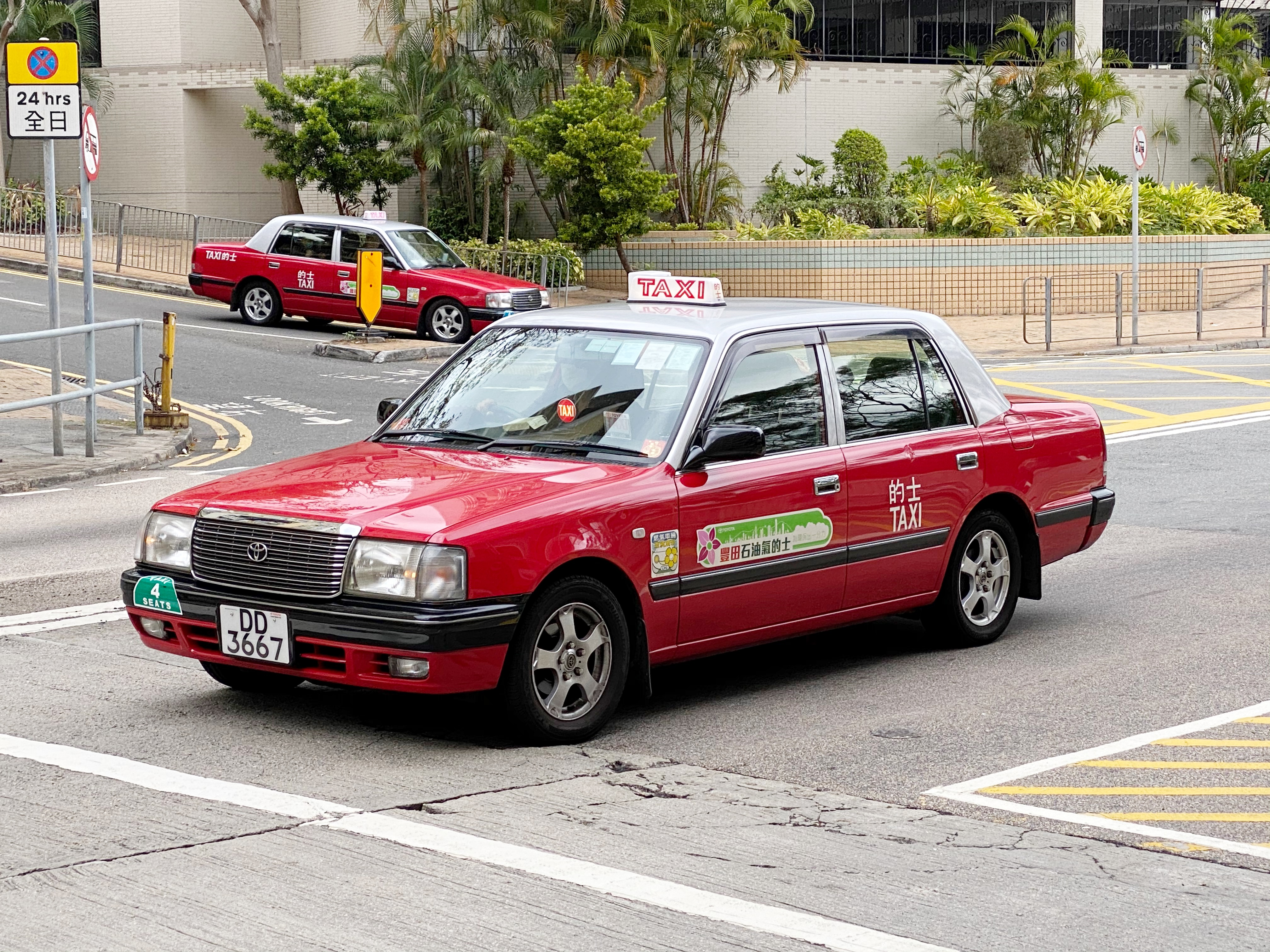 中文（香港）: This photo is taken in Wah Fu.